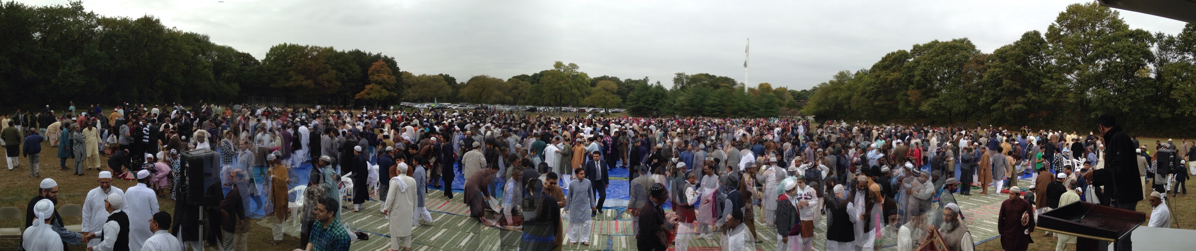 Muslim men after EID Prayer at Valley Stream Park Long Island. New York. United States of America.